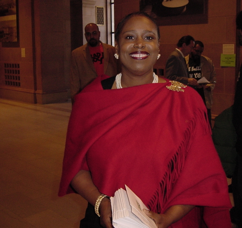 I, Robert B. Livingston, took this photo of Cynthia McKinney prior to her speaking at the Green Party Presidential Debate in San Francisco, January 13, 2008. The debate was held at the Herbst Theatre where McKinney debated Jesse Johnson, Kat Swift, Kent Mesplay,and Jared Ball (Mr. Ball is seen in this photo behind her on the left). Ralph Nader and Cindy Sheehan were other notable attendees at the event.